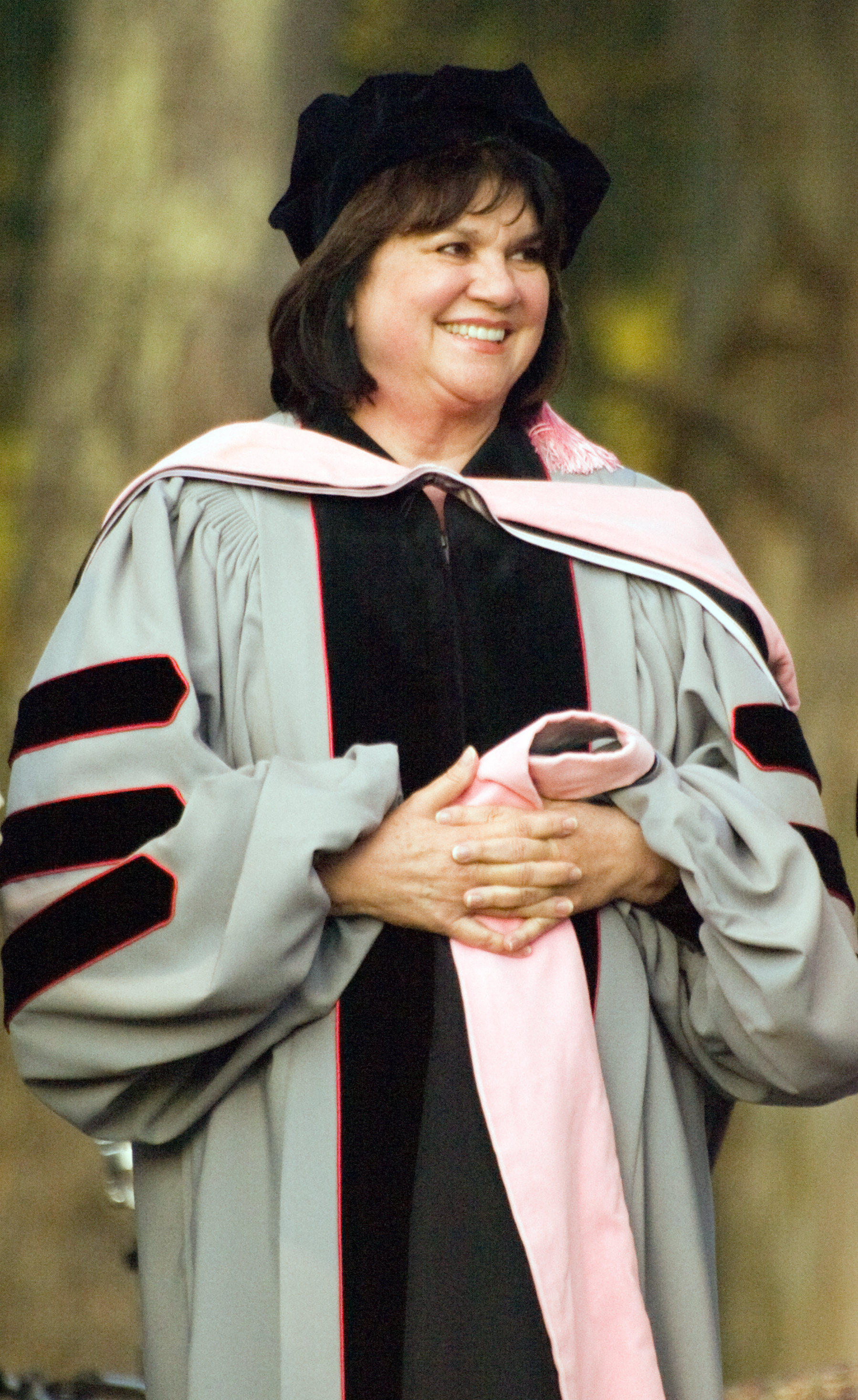 US singer Linda Ronstadt in her Berklee College of Music honorary doctoral robe at 2009 Hardly Strictly Bluegrass Festival, San Francisco